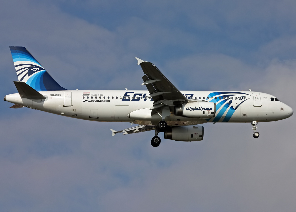 EgyptAir Airbus A320 (SU-GCC) on finals at Ataturk Airport. This aircraft was lost as EgyptAir Flight 804 on 19 May 2016